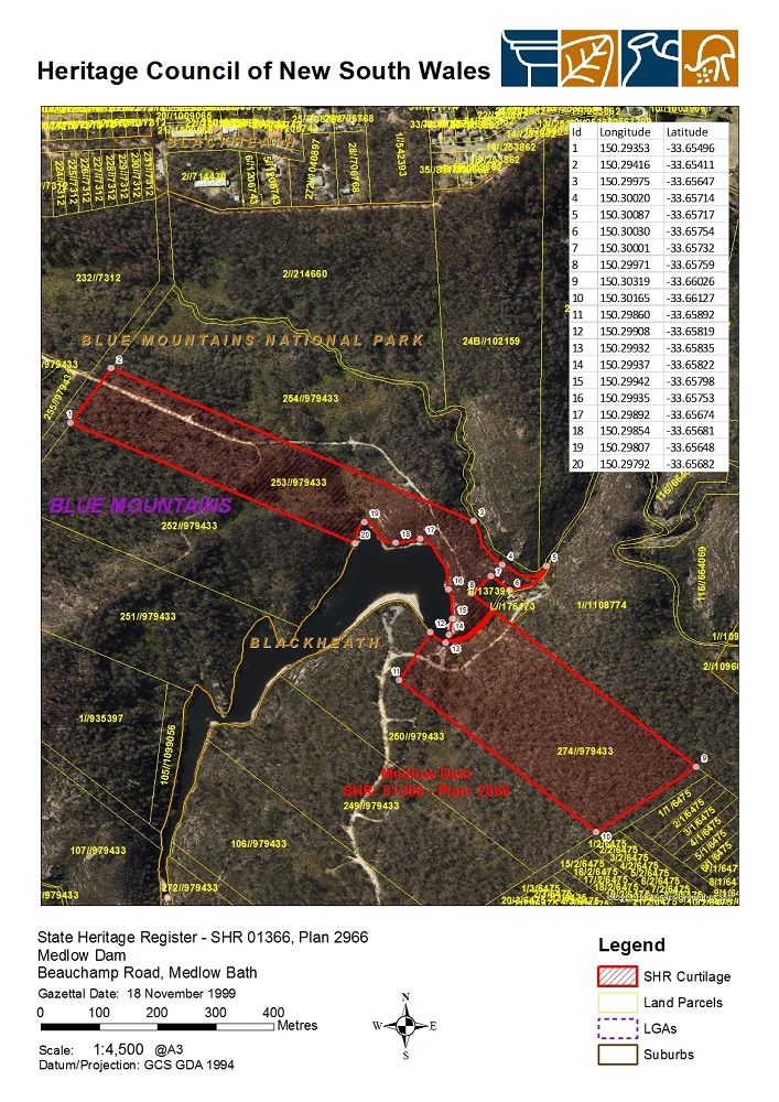 Medlow Dam: SHR Plan No 2966